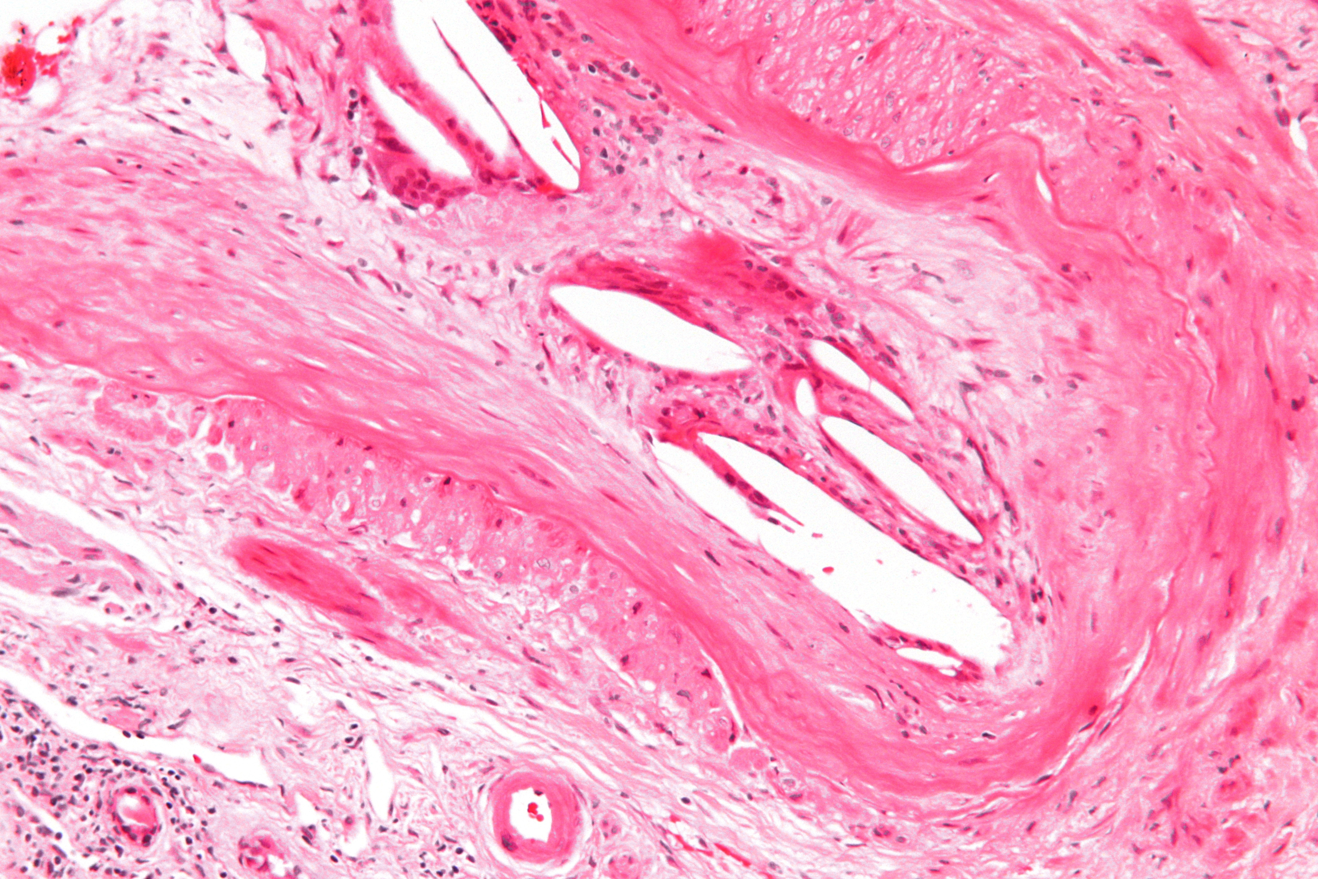 High magnification micrograph of a cholesterol embolus in a medium sized artery of the kidney. This is also known as atheroembolic renal disease and atheroembolism.[1] Kidney biopsy. H&E stain. The image shows numerous intra-arterial cholesterol clefts with an associated giant cell reaction. Related images Intermed. mag. High mag. Very high mag. References ↑ (Aug 2001). "Atheroembolic renal disease.". J Am Soc Nephrol 12 (8): 1781-7.